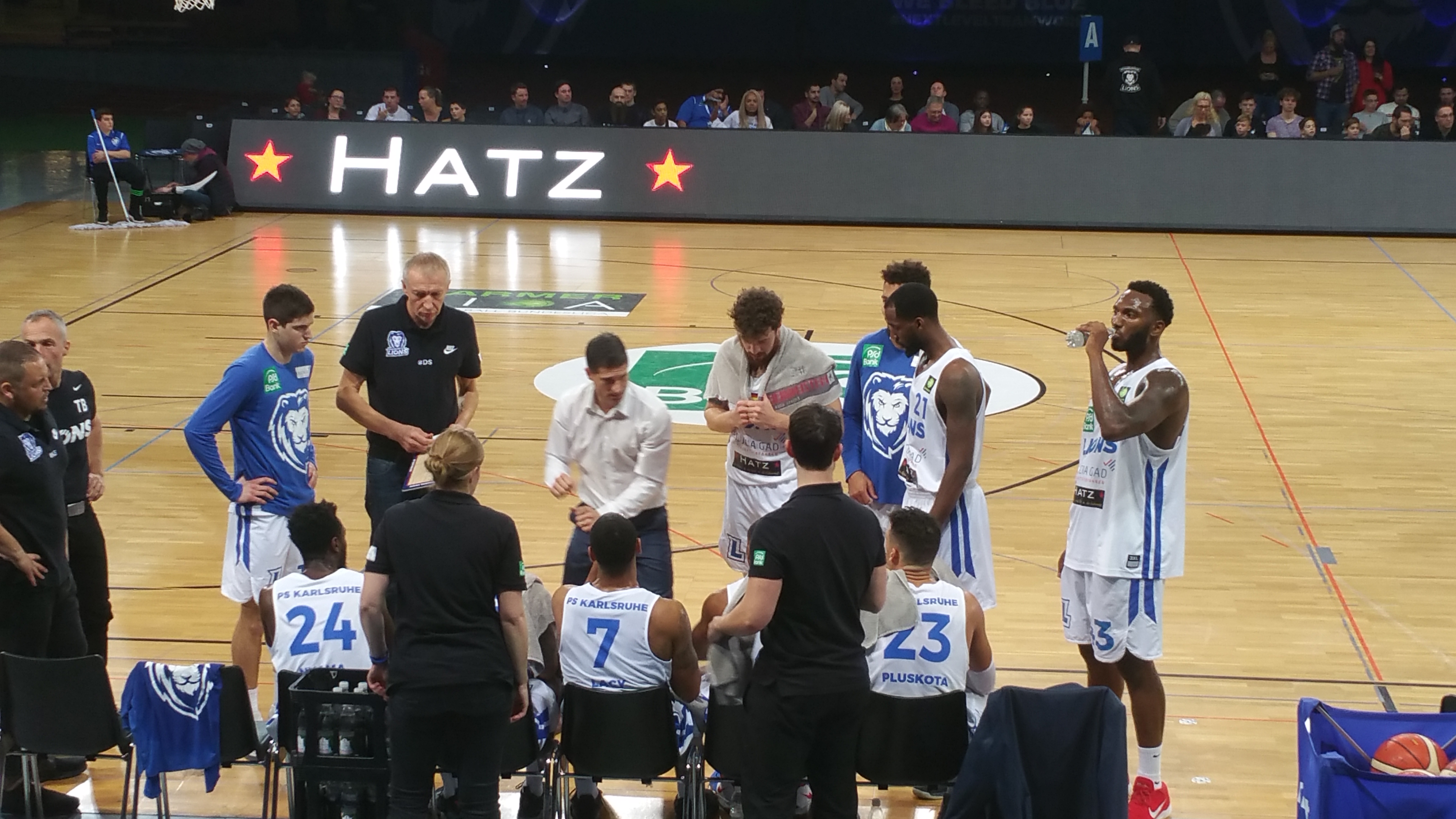 taken during professional basketball game in Germany